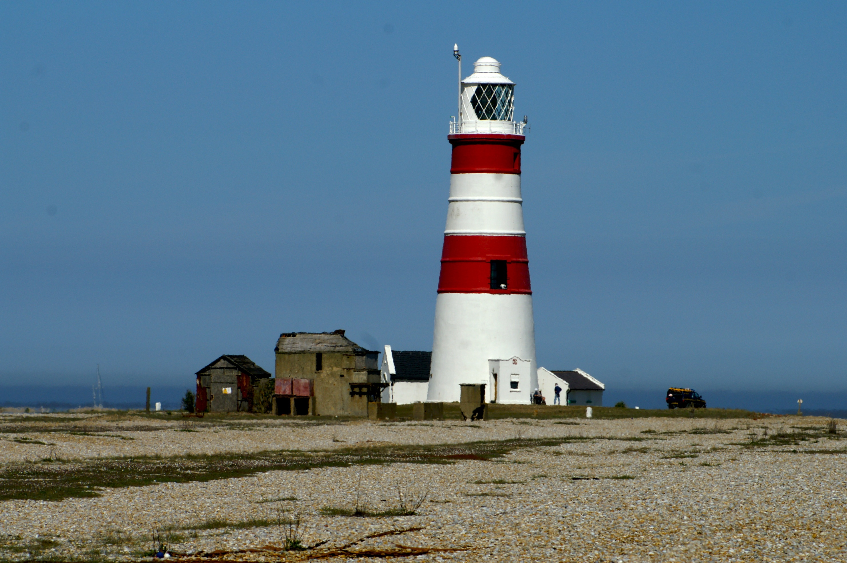 Orford Ness lighthouse, cause of a UFO purportion.